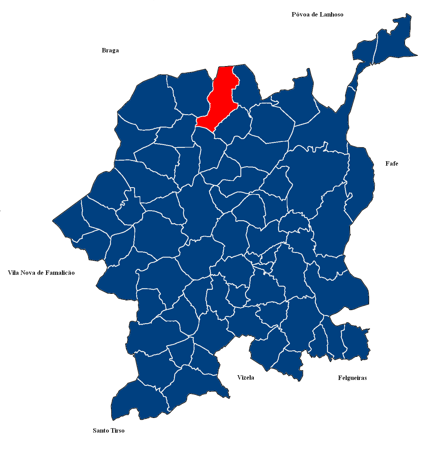 Map of Salvador de Briteiros parish, Guimarães Municipality, Portugal